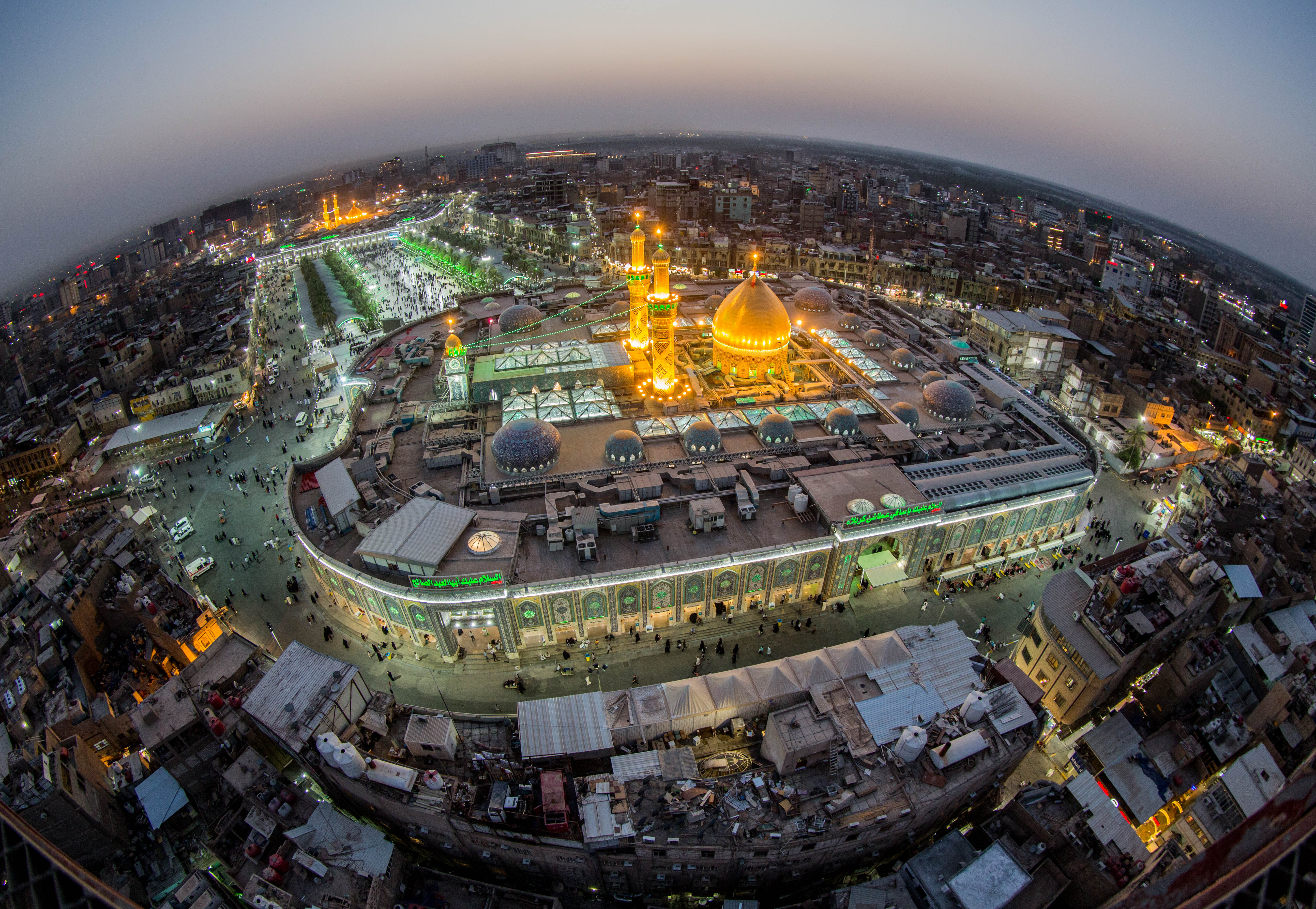 Karbala City From Sky